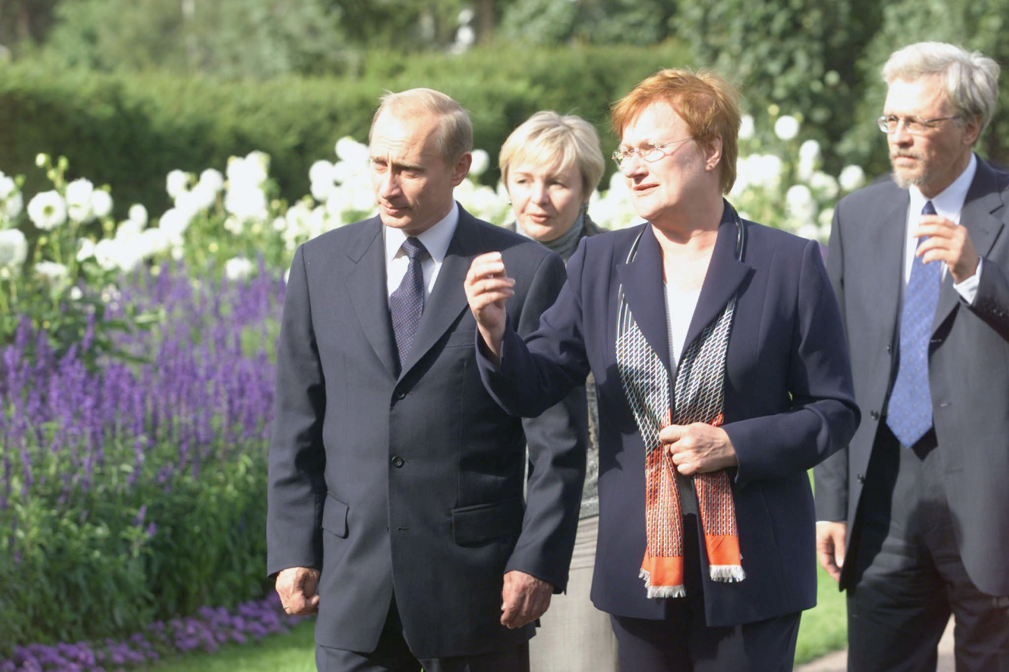 President Putin and his wife Lyudmila with President Tarja Halonen and her husband, Dr Pentti Arajarvi, taking a stroll at the Kultaranta residence.